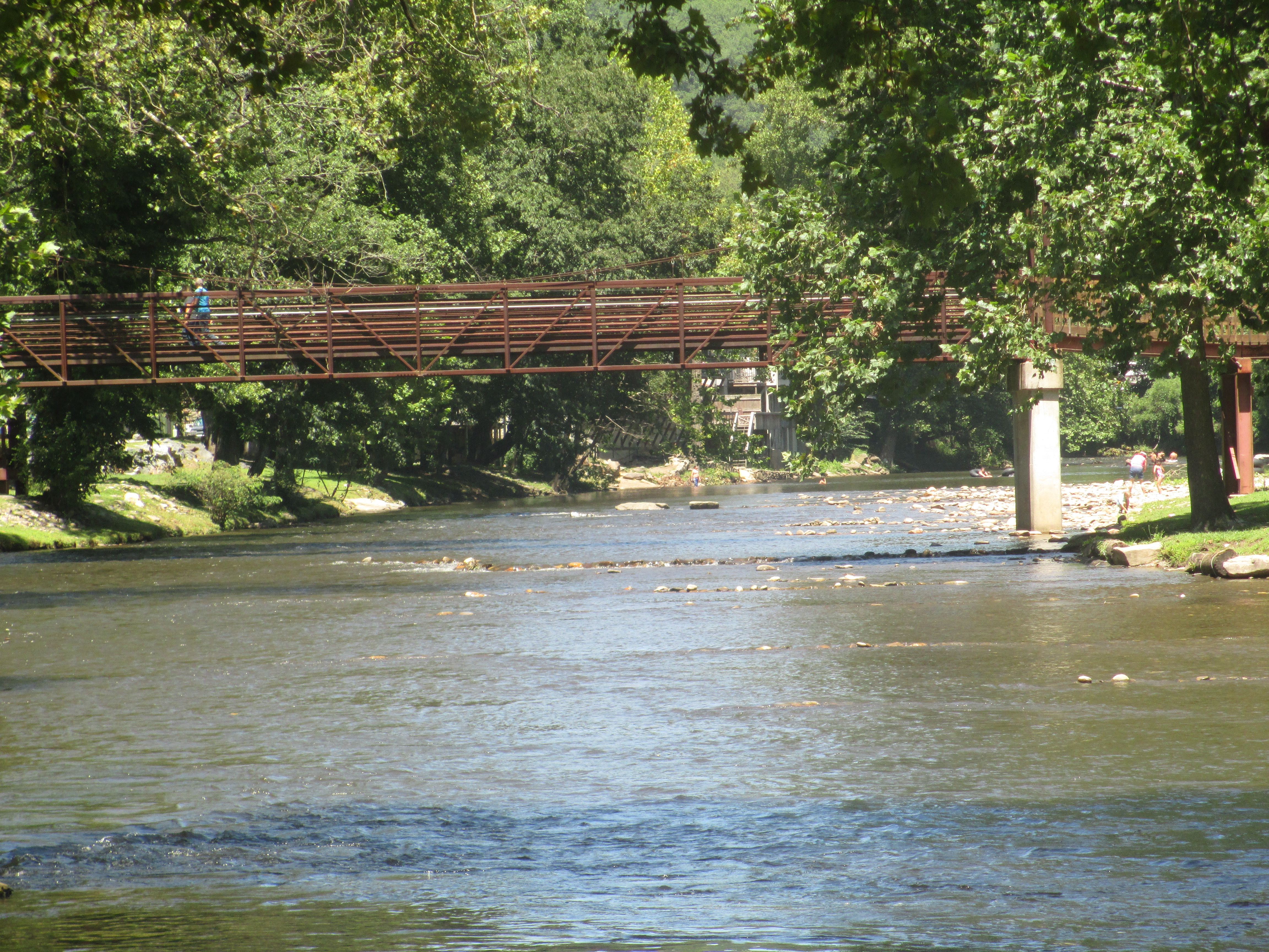 I took photo with Canon camera of bridge over Oconaluftee River in Cherokee, NC.